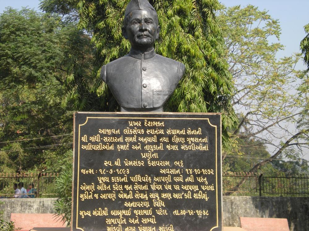 Premshankar Bhatt Gandhian and Freedom Fighter